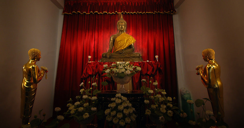 Phra Buddhu Sukothai Tri Lokashet Location: Wat Khung Taphao Ban Khung Taphao, Khung Taphao subdistrict, Mueang Uttaradit, Uttaradit Province, Thailand.